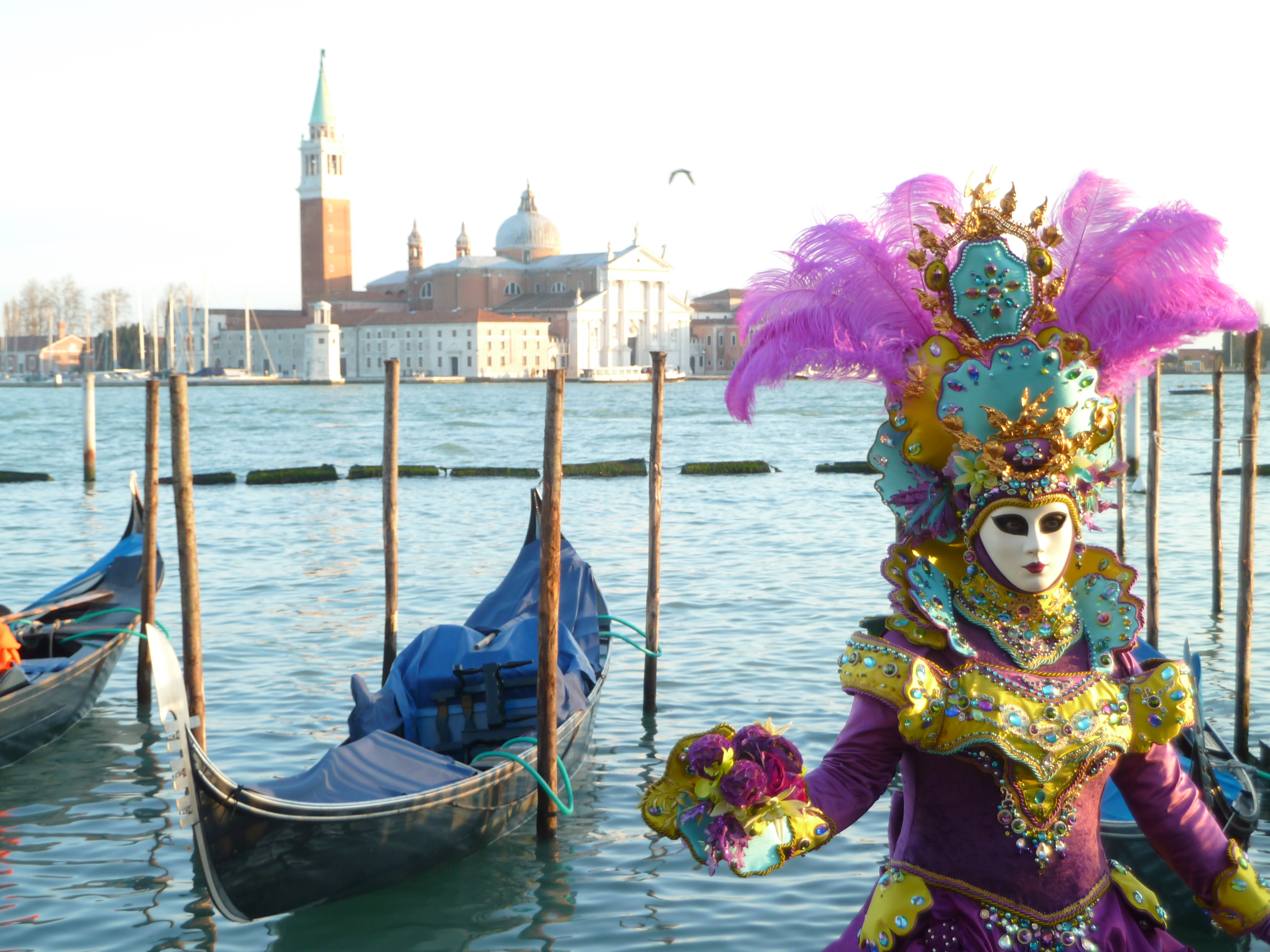 Carnival Venice 2015